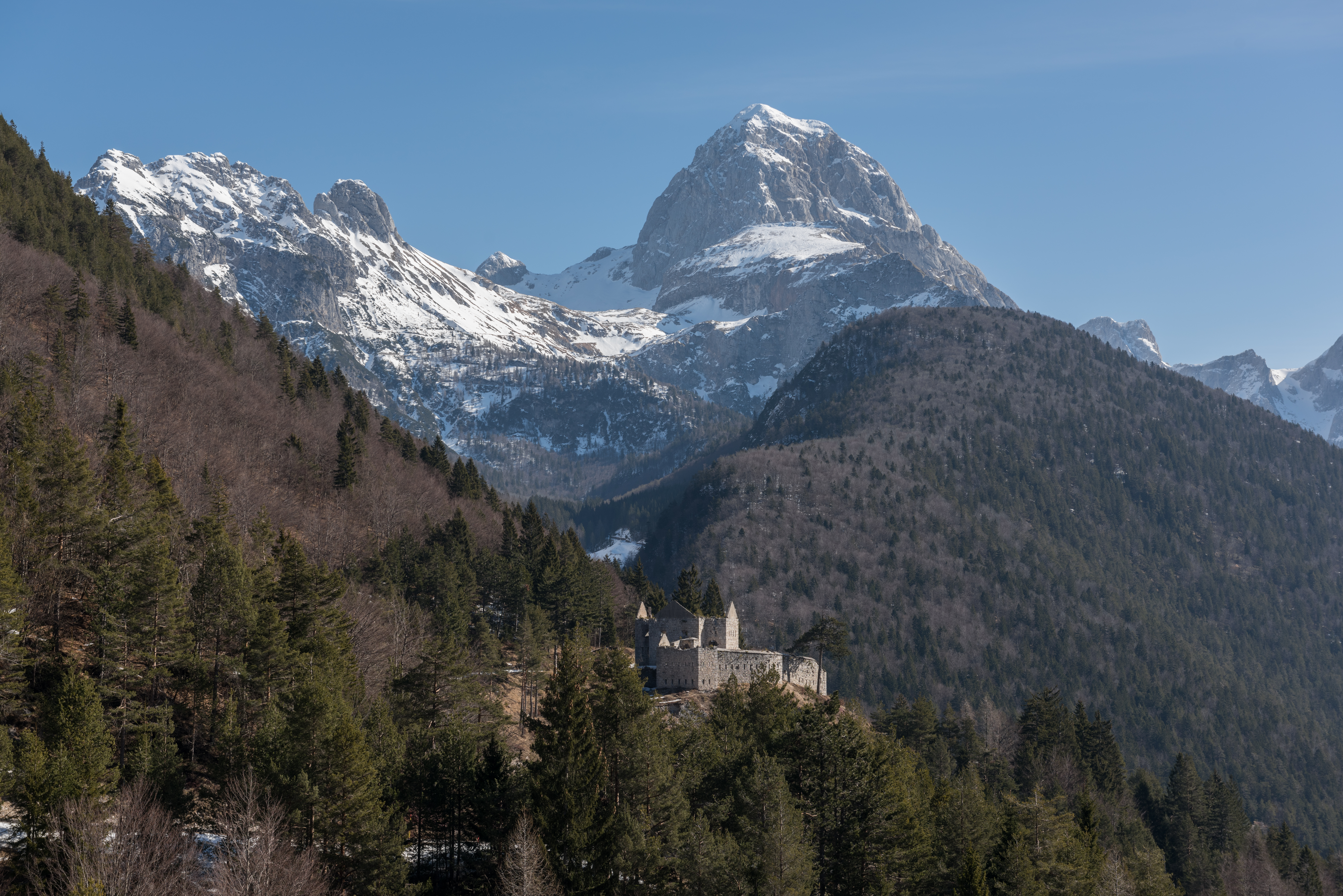 Fort Predel on the Predil Pass (Mangart in the background), Strmec na Predelu, municipality Bovec, Slovenia, EU